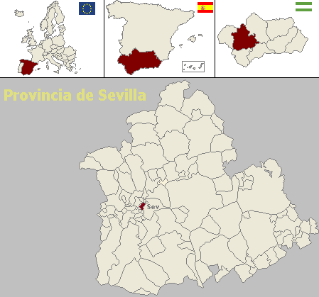 Camas